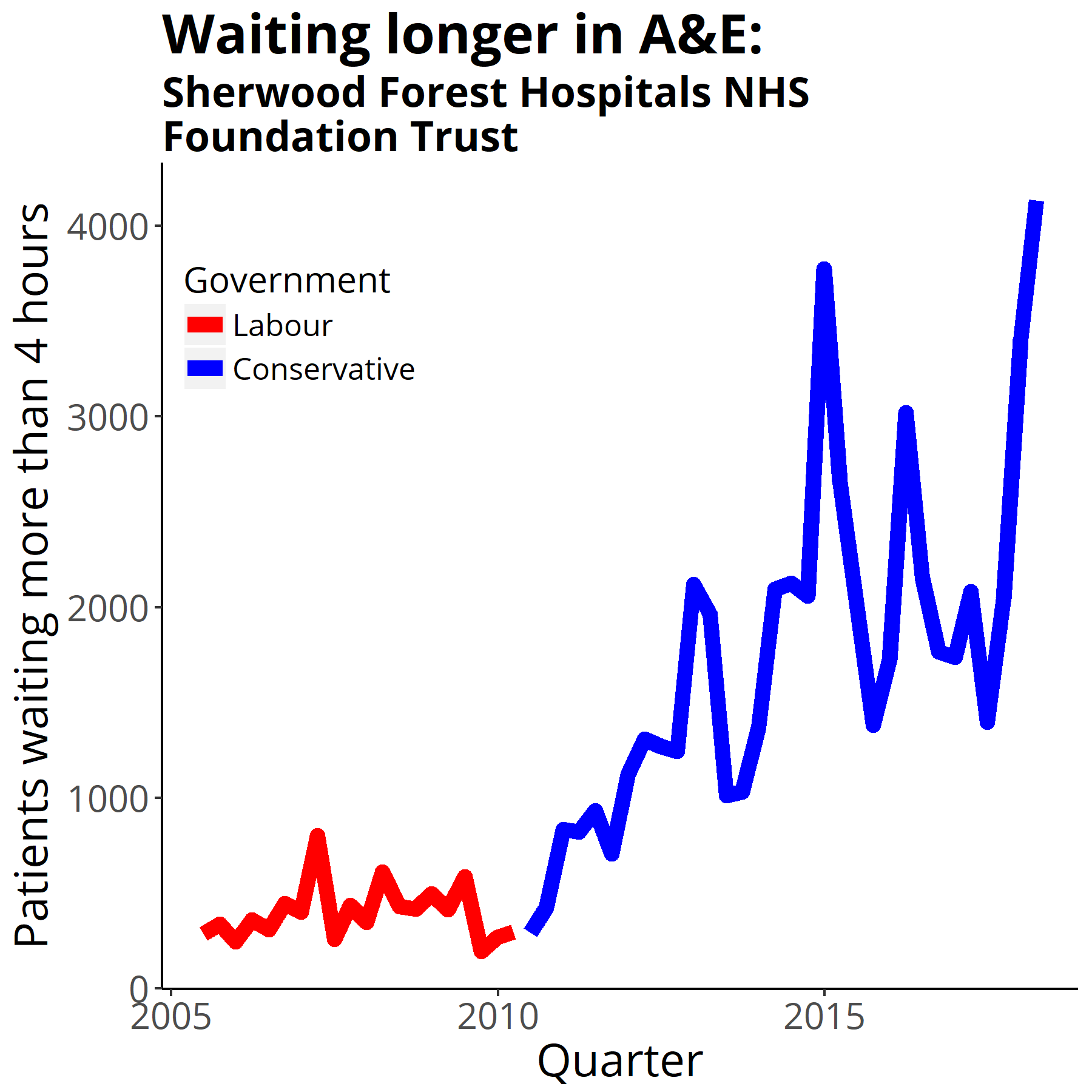 Four-hour target in the emergency department quarterly figures from NHS England Data from